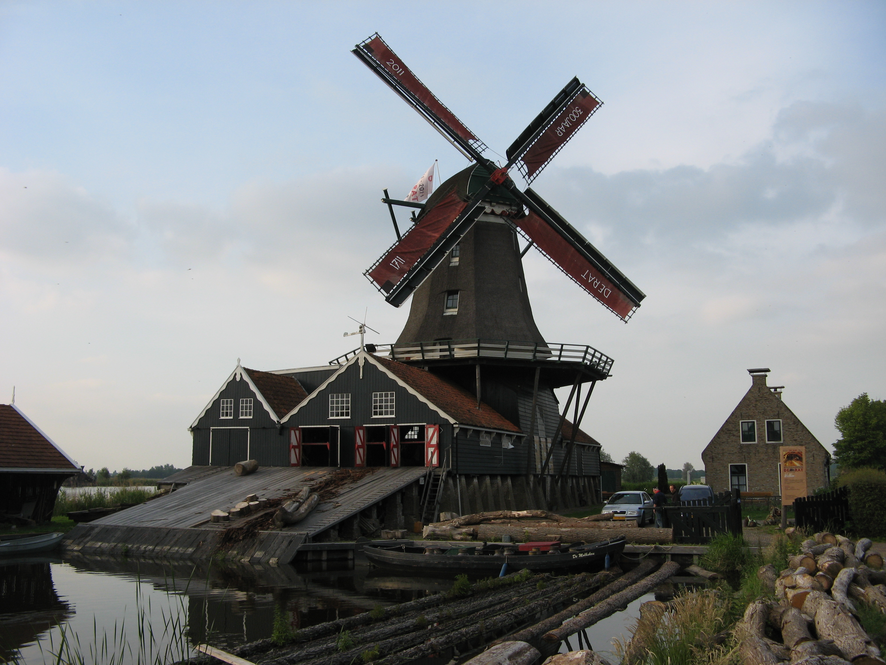 Sawmill De Rat (The Rat) in IJlst, The Netherlands with sailcloth showing it's 300th birthday